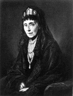 Augusta of Saxe-Weimar-Eisenach (1811-1890)